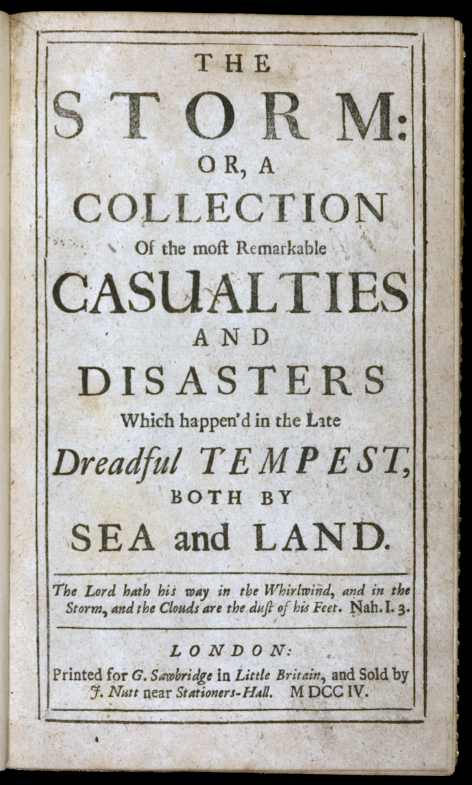 Cover page of The Storm by Daniel Defoe